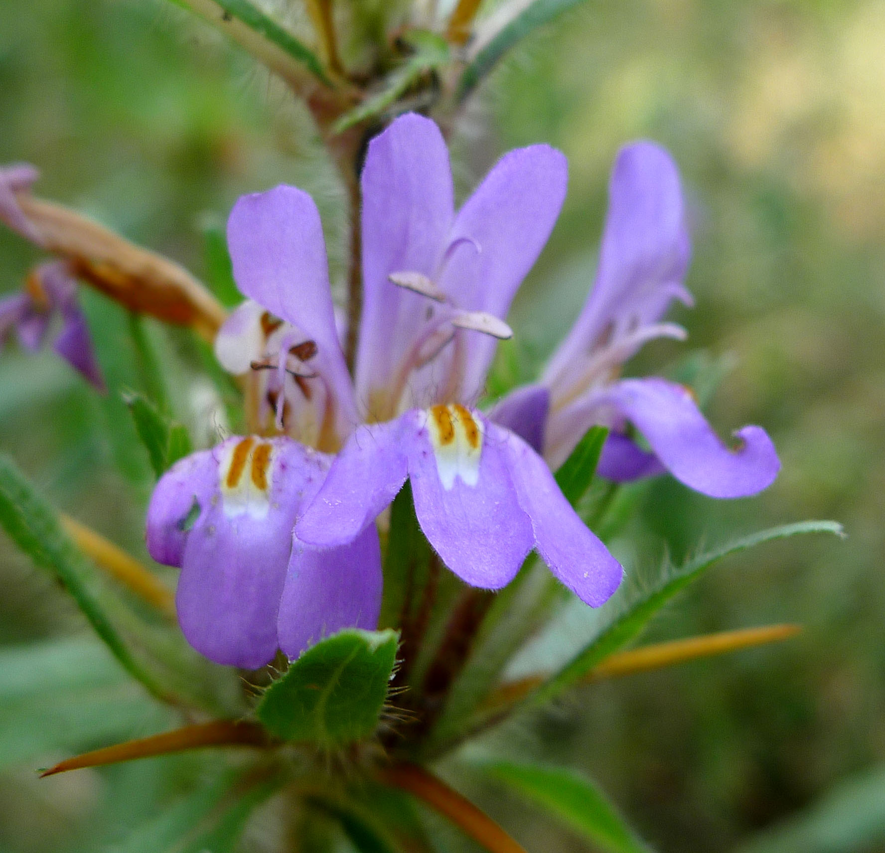 Hygrophila schulli Acanthaceae